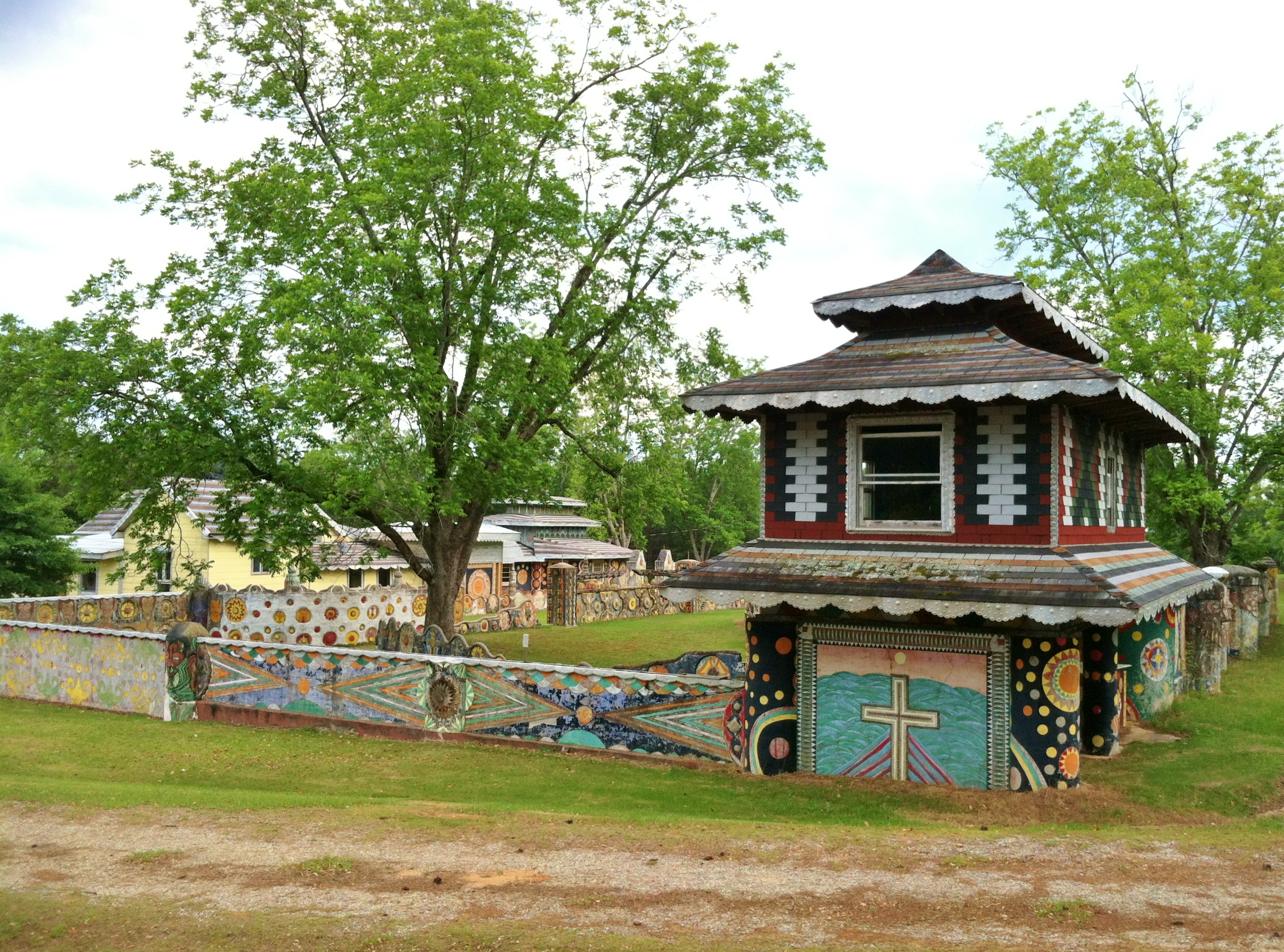 This is a photograph of Pasaquan in Buena Vista, GA